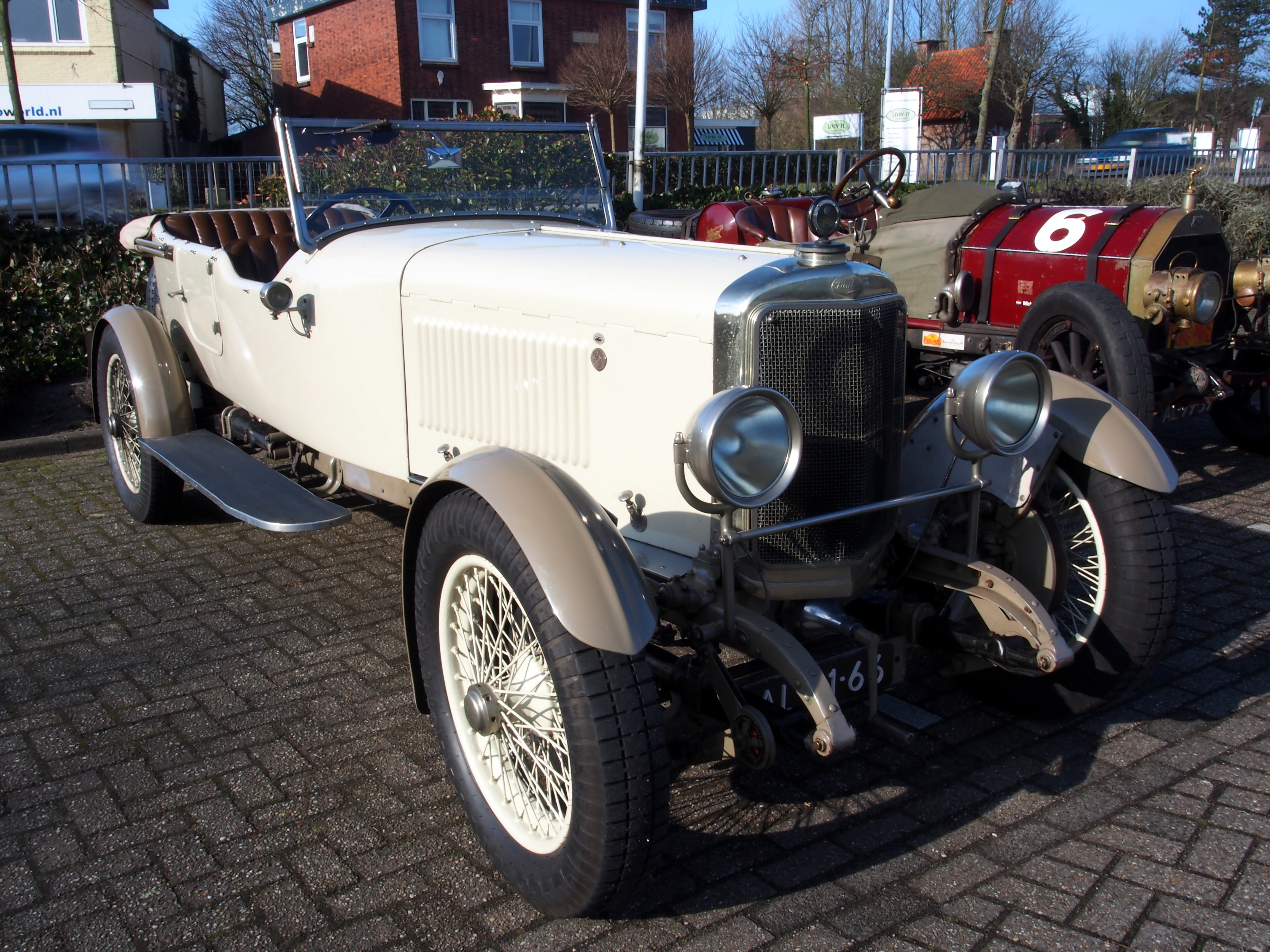 1926 Sunbeam 3.0-Litre Super Sports ‘Twin Cam’ Tourer engine 4070F 6 cylinders, 2916 cc chassis 4062F source Photographed in front of the Den Hartogh Ford Museum.